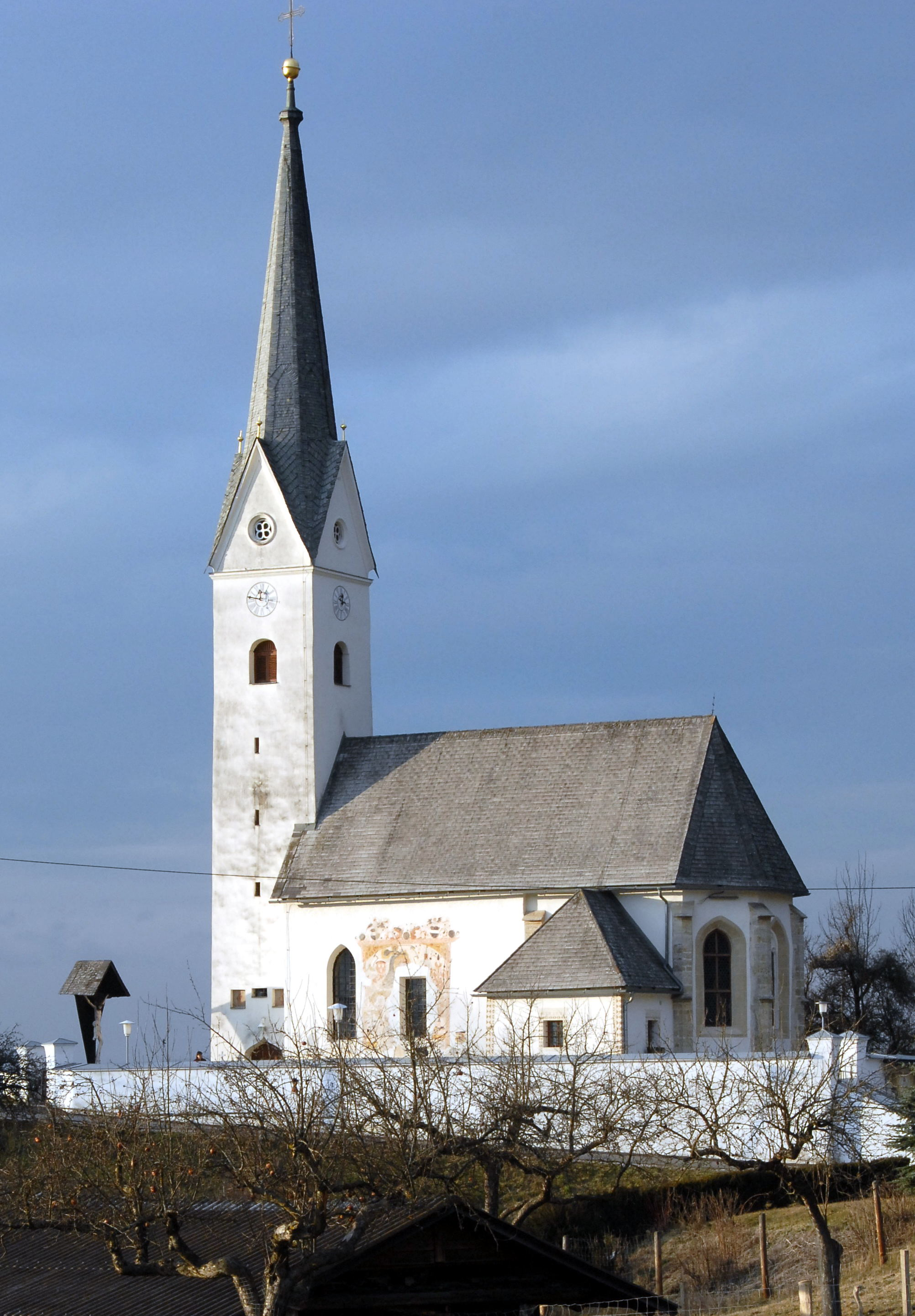 Parish church Saint Bartholomeus at Obermieger in the municipality Ebenthal in Kärnten, district Klagenfurt-Land, Carinthia, Austria